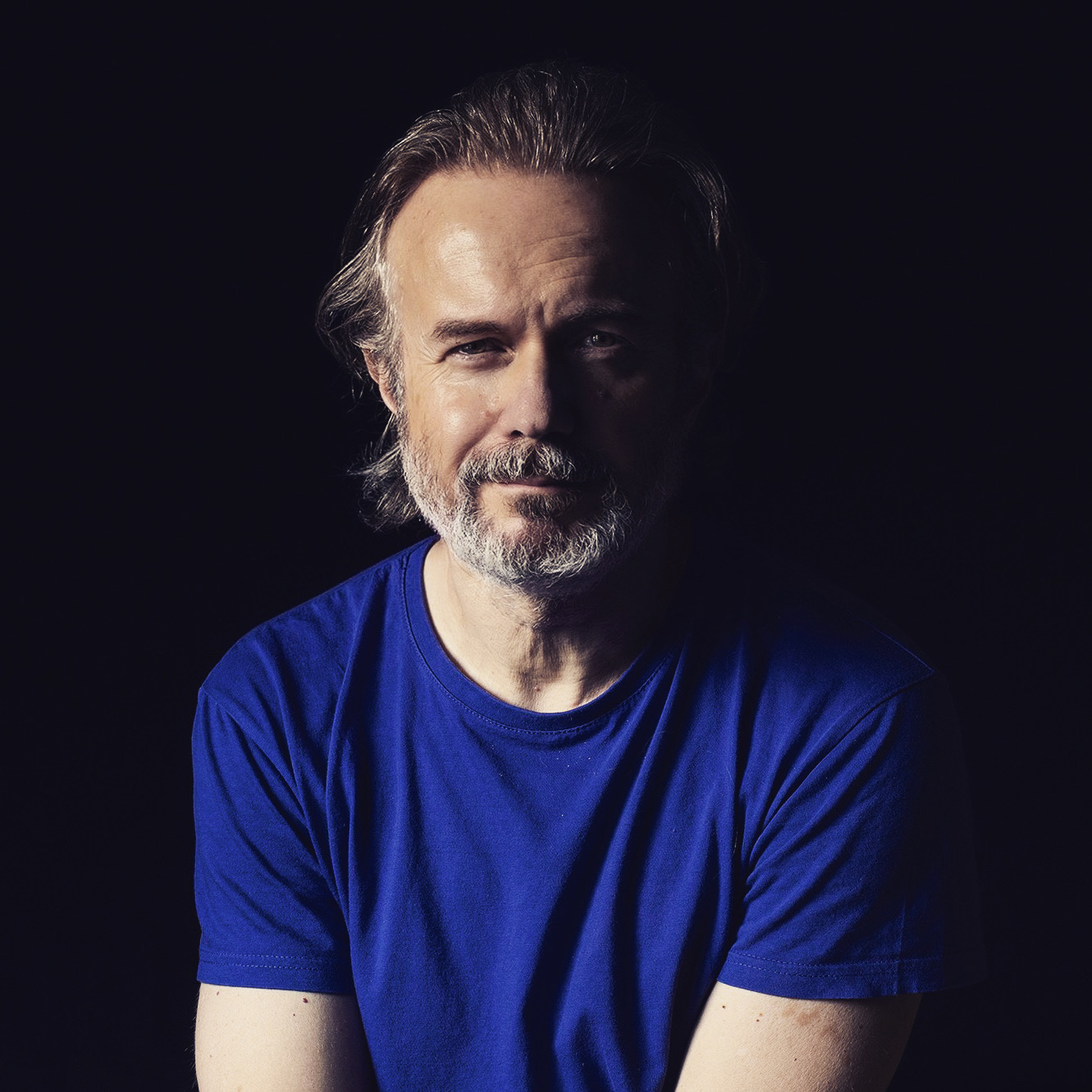 Picture by Carole Alfarah